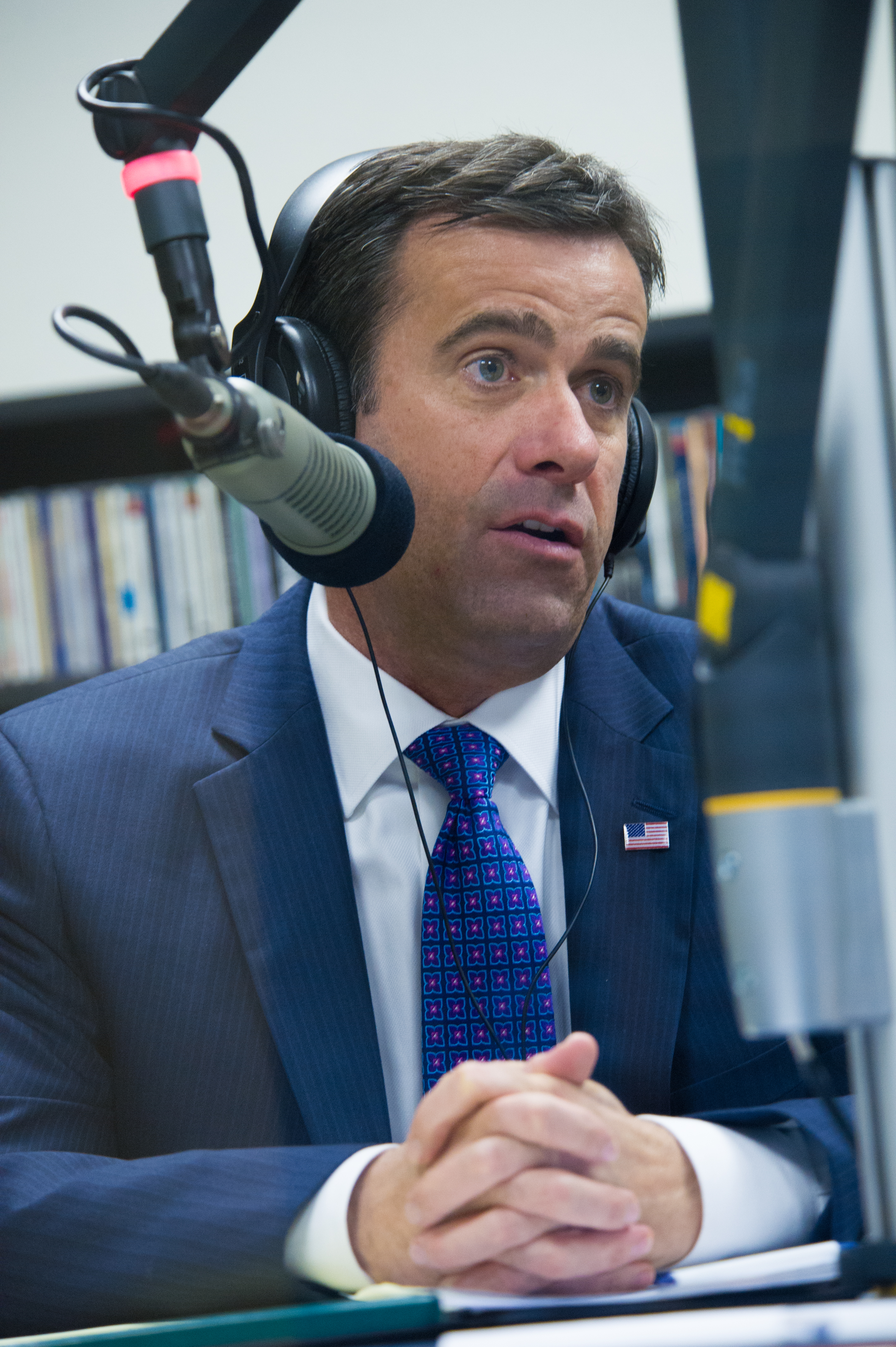 John Ratcliffe at KETR at Texas A&M University–Commerce